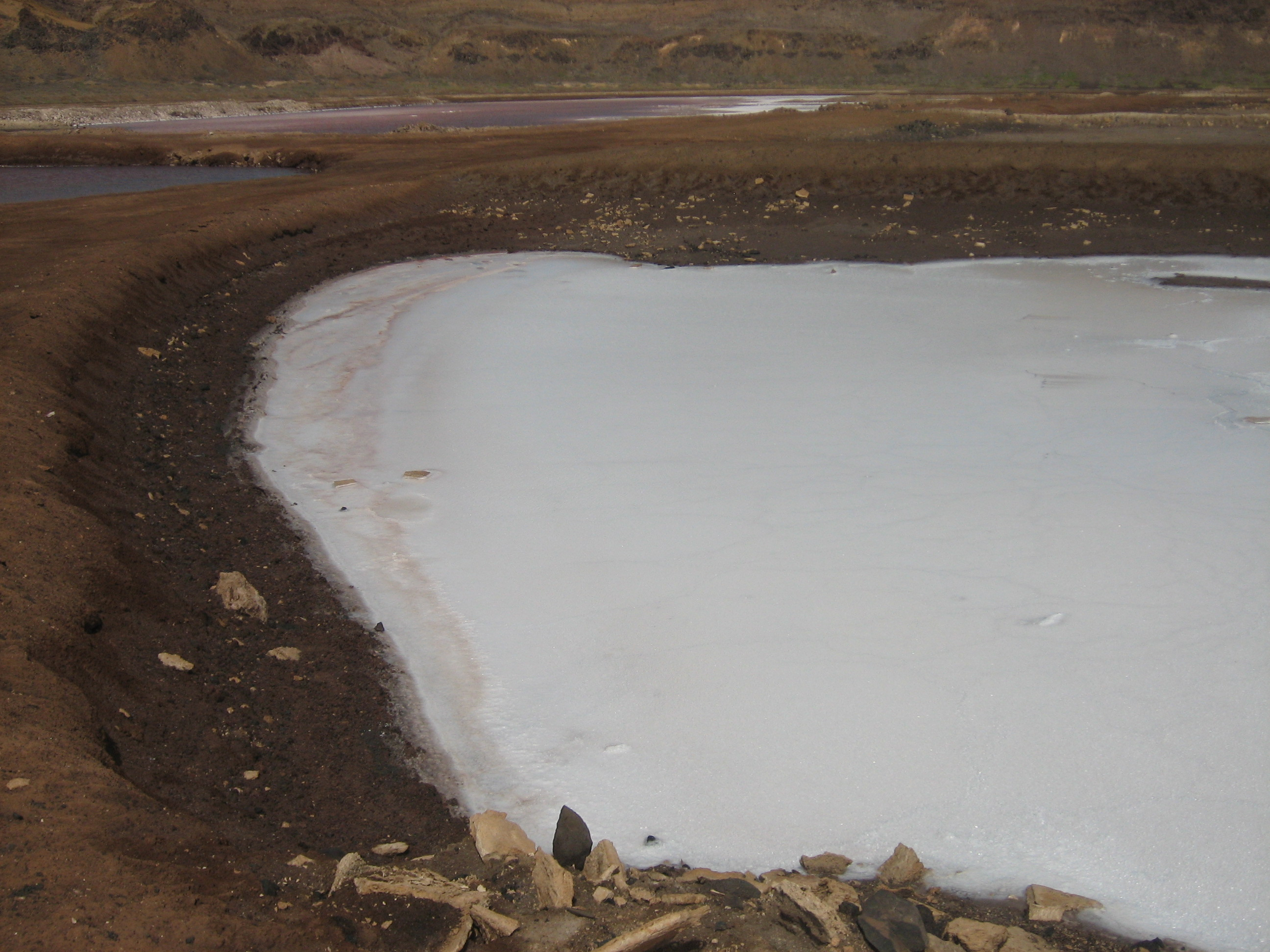 Salt from the saline of Pedra Lume, Cape Verde